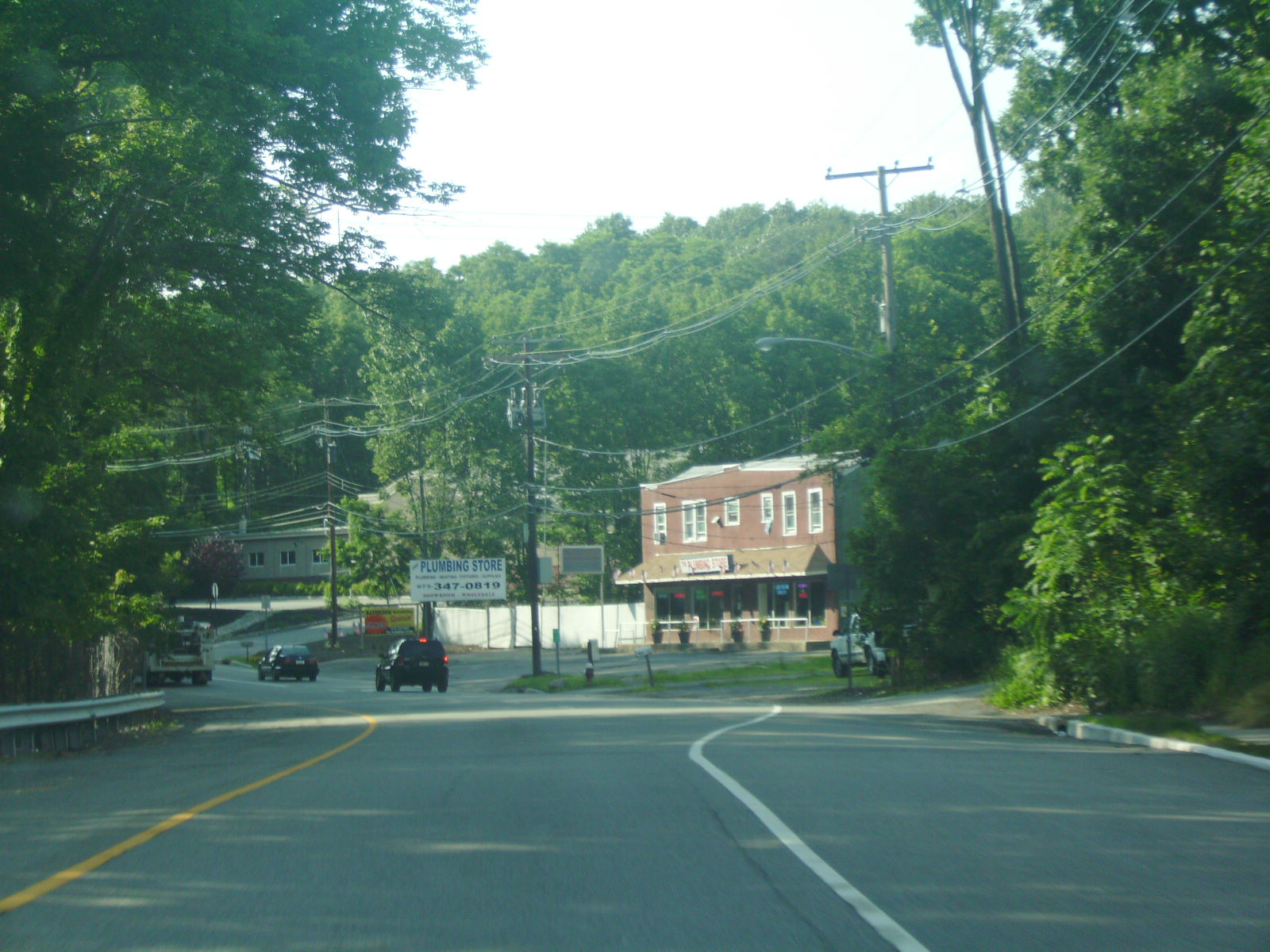 New Jersey Route 183 heading northbound in Stanhope, New Jersey.